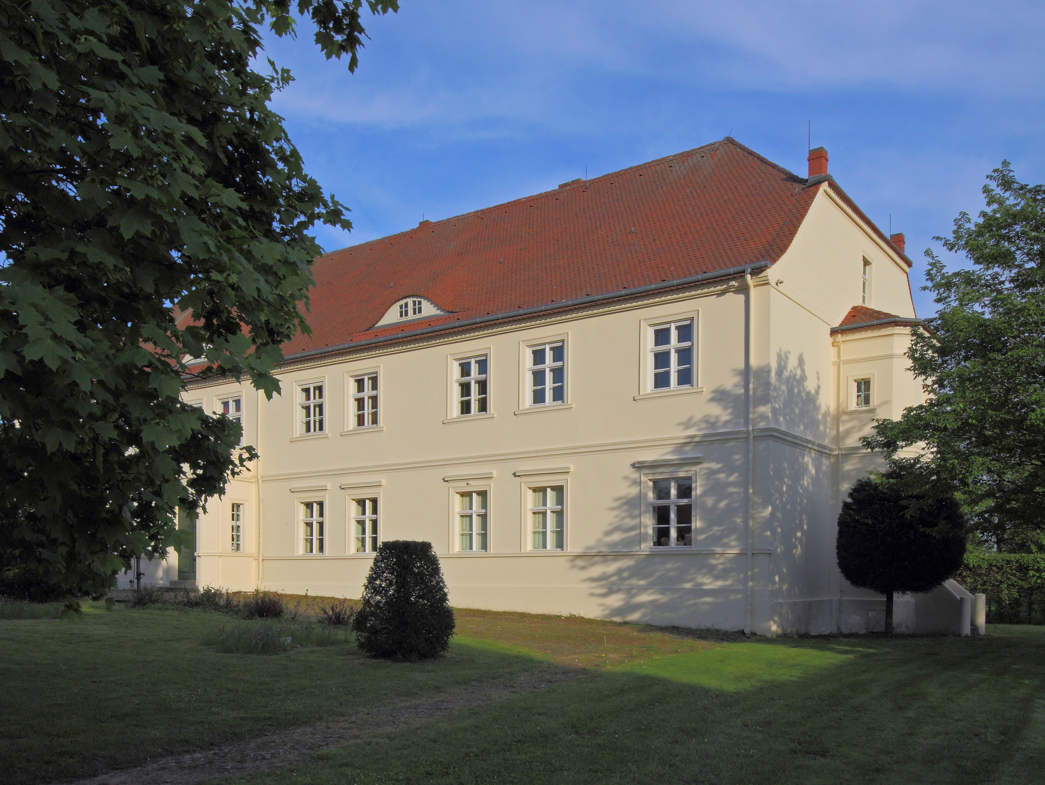 Manor in Garz (Temnitztal), Brandenburg, Germany